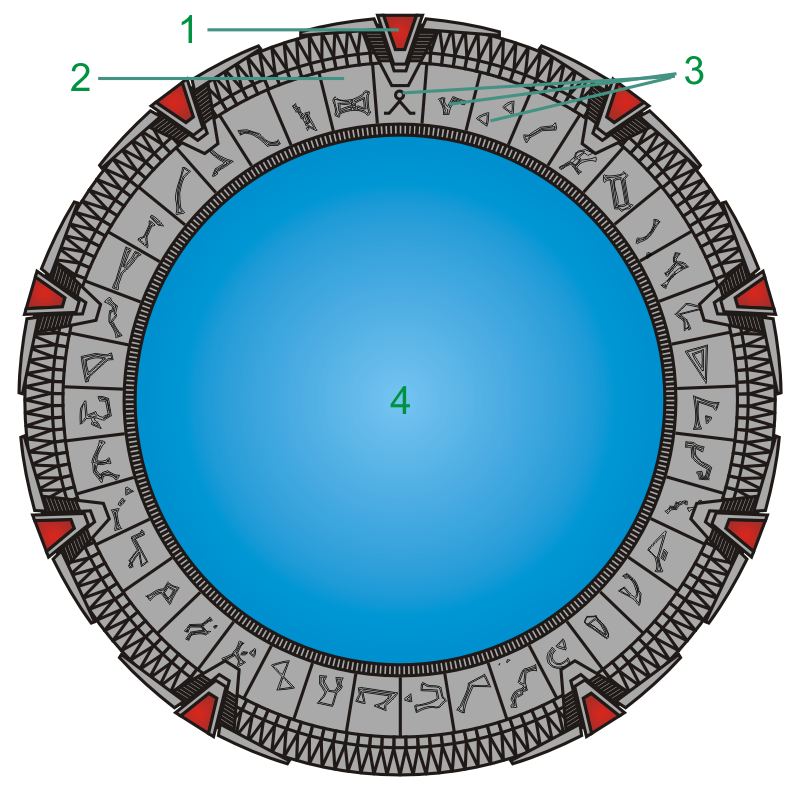 A drawing of the Stargate in Cheyenne Mountain with description. 1 — chevrons; 2 — dialing ring; 3 — glyphs; 4 — event horizon.